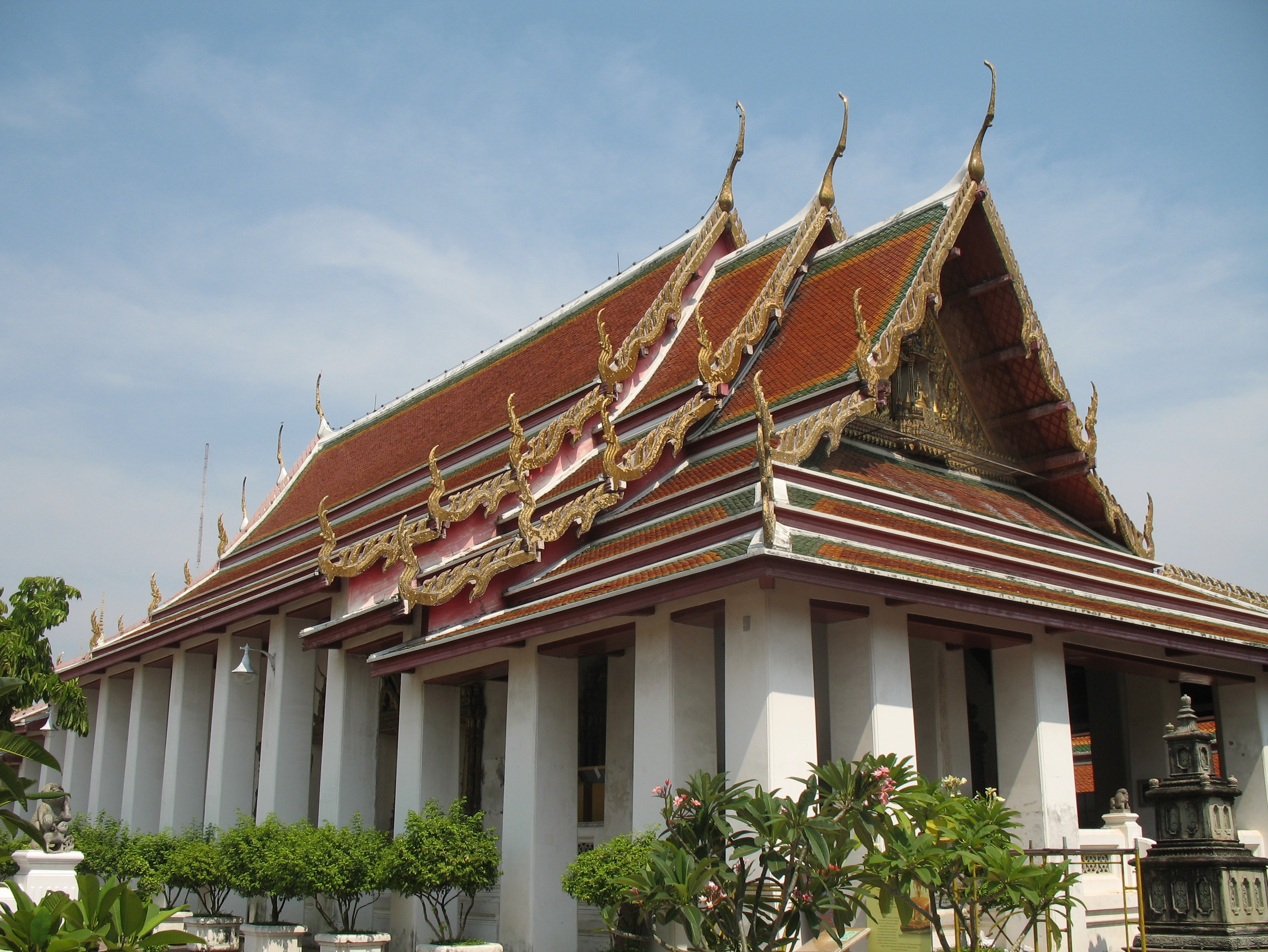 Sala Karn Parien in Wat Pho, used for teaching and meditation